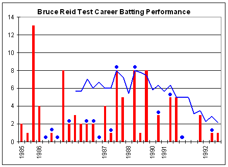 Test batting chart of Bruce Reid. Red columns are the runs in the innings. Blue dots indicate not outs. Blue line is average in the last ten innings. Thanks to Raven4x4x for providing the template.